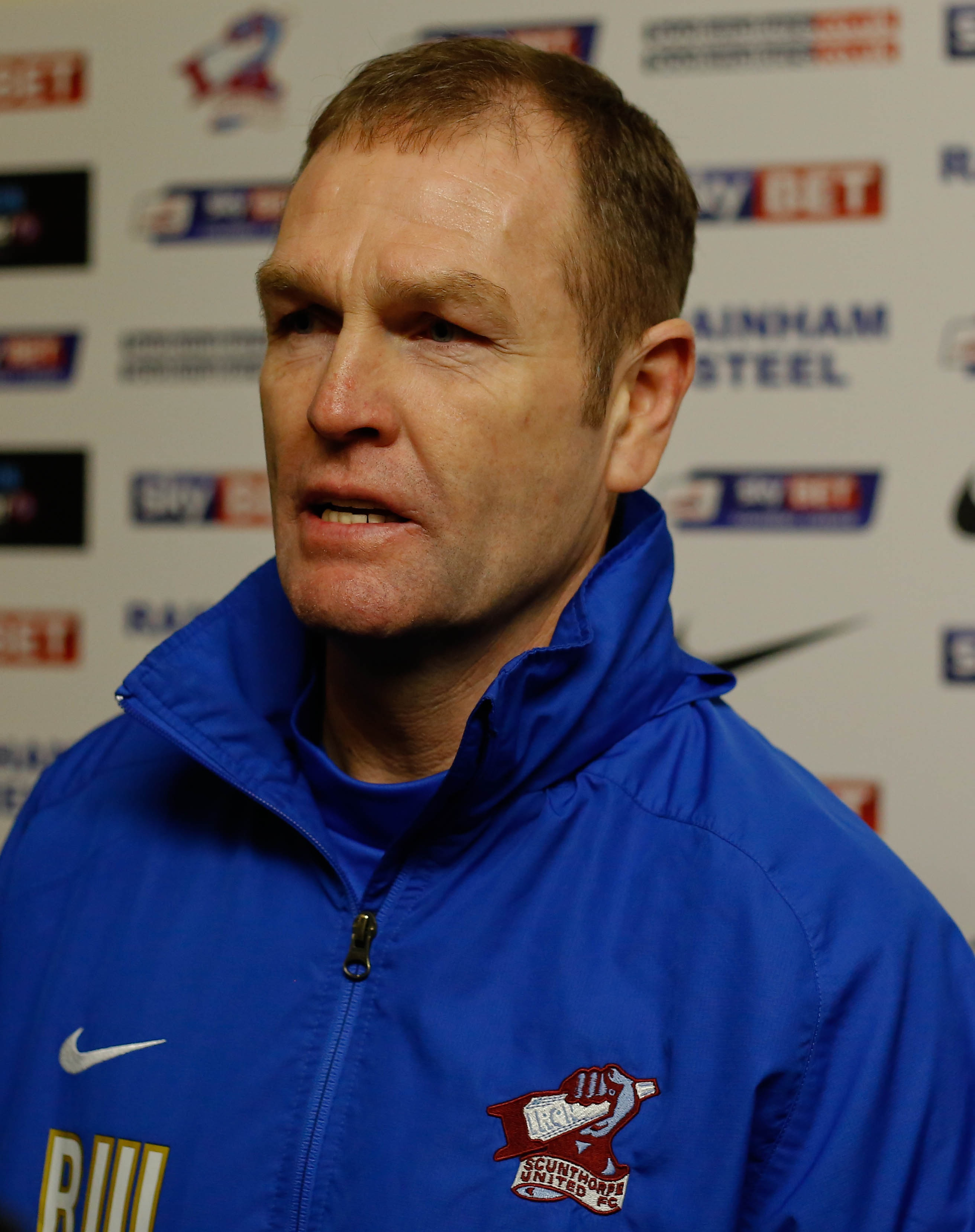 Russ Wilcox adjusting superbly to his new role as Manager.